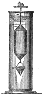 Araeometer of Nicholson